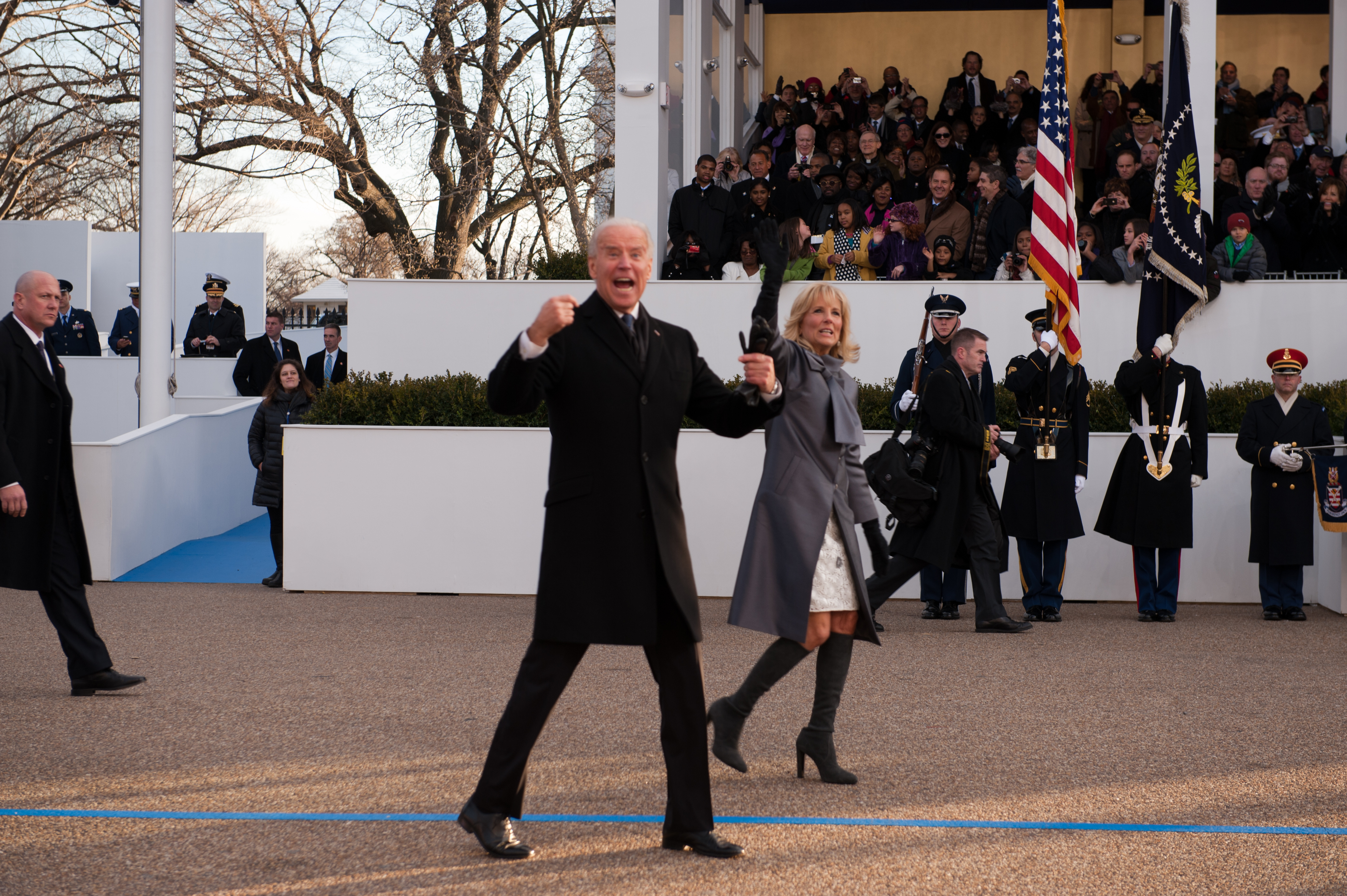 Vice President Joe Biden and second lady Dr. Jill Biden pass the official review stand opposite Lafayette Park where they later watched the remainder of the Inauguration parade. The 57th Presidential Inauguration was held in Washington Monday, Jan. 21, 2013. (Official U.S. Air Force photo by Tech. Sgt. Eric Miller/ New York Air National Guard)